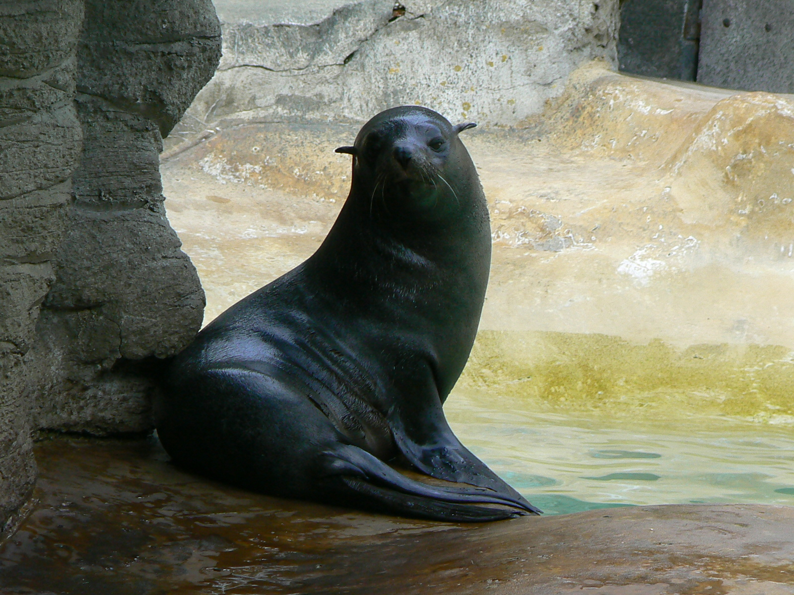 Arctocephalus australis/ south american fur seal/südamerikanischer seebär